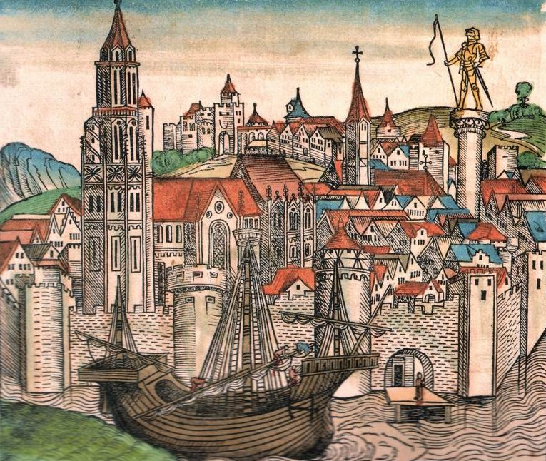 Woodcut of Paris from the Nuremberg Chronicle